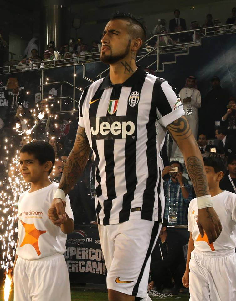 Save the Dream was proud to partner with Aspire Academy and the Qatar Football Association to spread the message of pure sport at the Italian Supercup finals between Juventus and SSC Napoli, held in Doha on December 22nd, 2014. Bianconeri's Arturo Vidal.